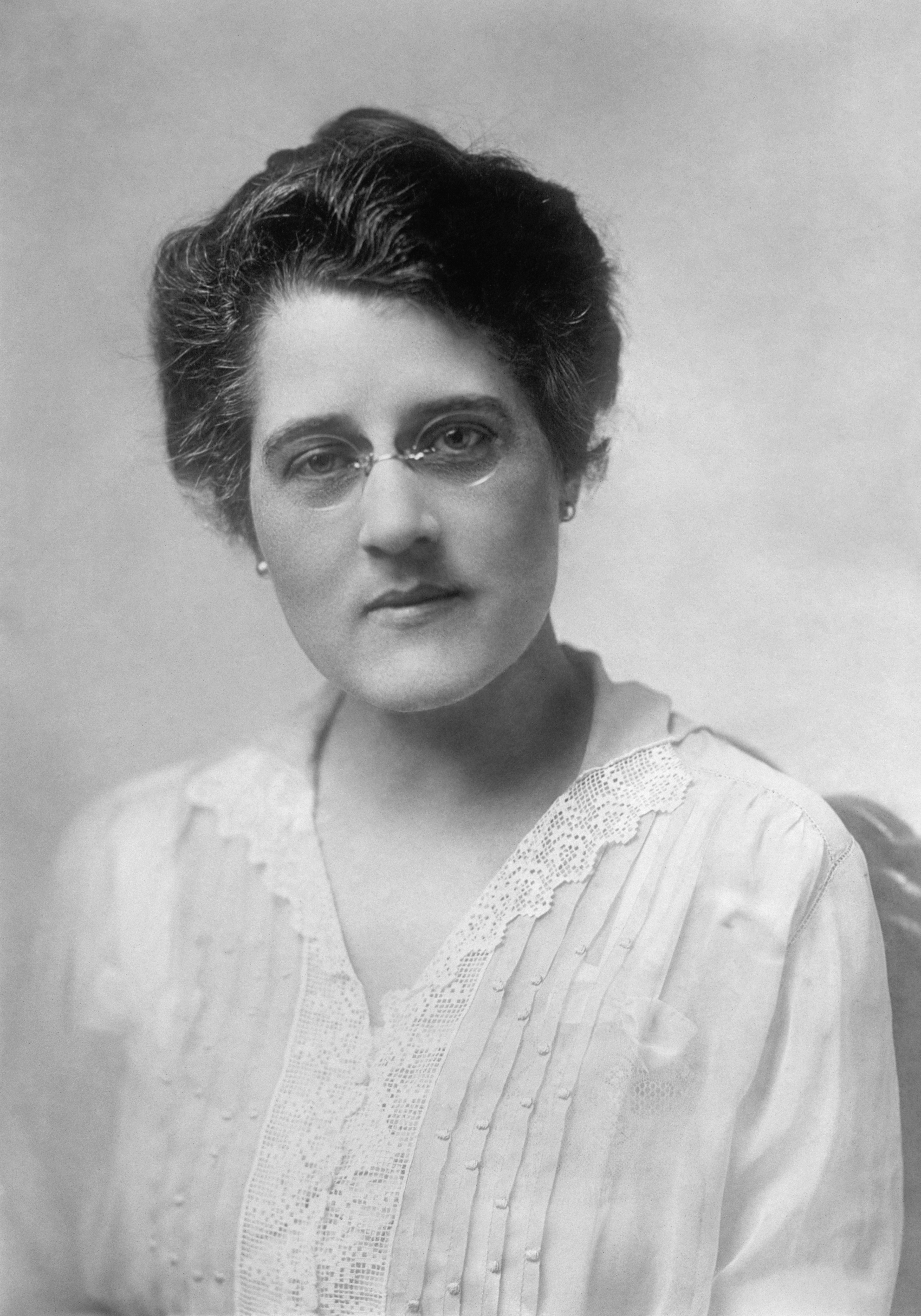 Mrs. Patti Ruffner Jacobs, Alabama. Glass negative, 5 x 7 in. or smaller